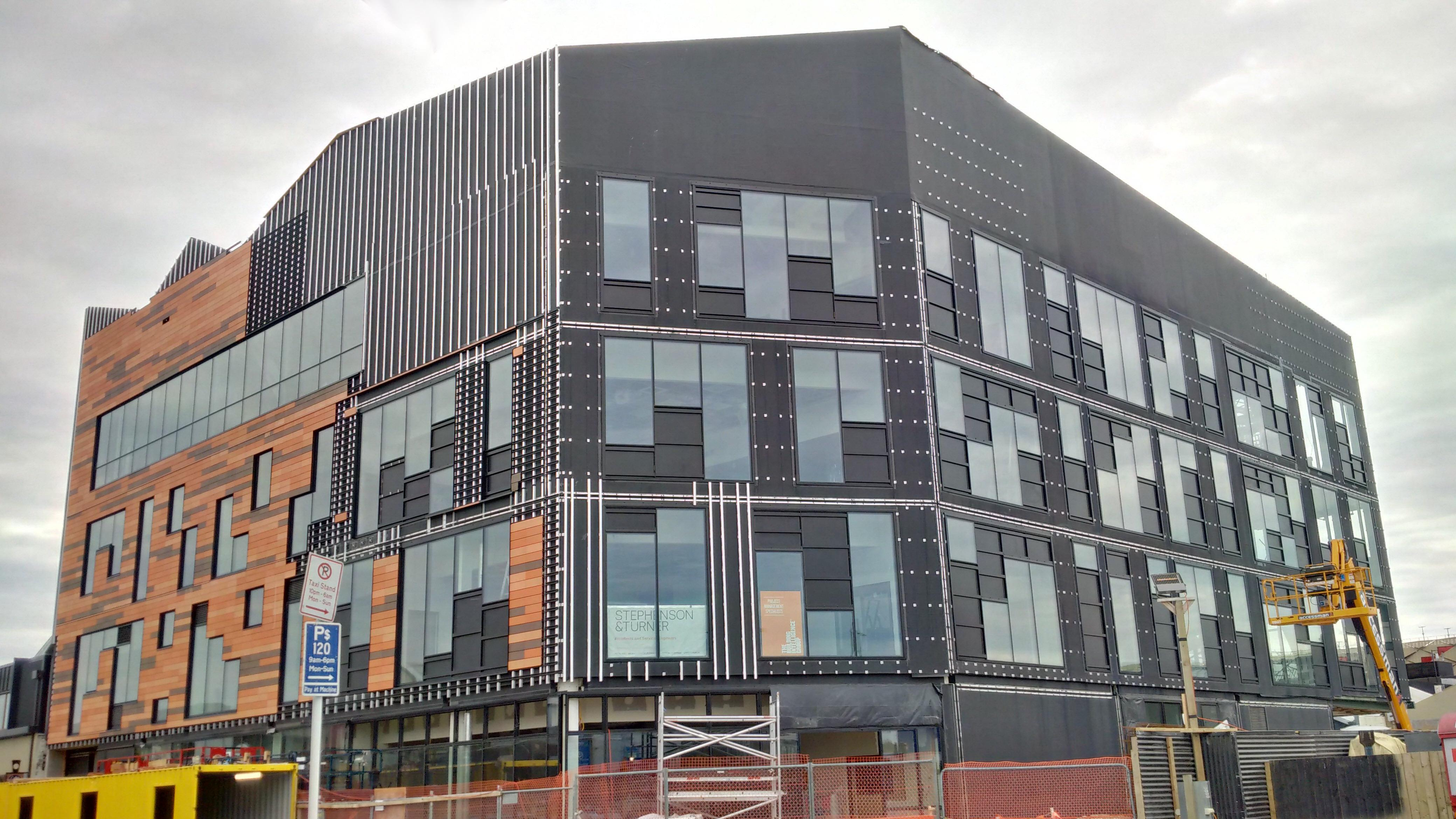 Ao Tawhiti building during construction on 177 St Asaph Street. Taken on Thursday, 28th February 2019, at 5:42PM.